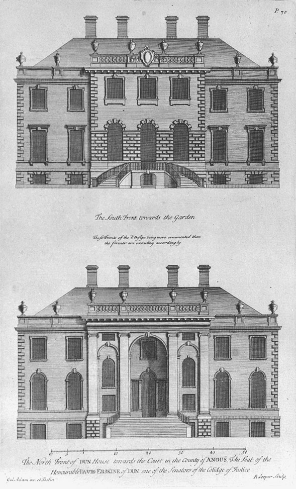 Engraving of the north and south fronts of the House of Dun, Angus, Scotland, designed by William Adam and built in 1730.